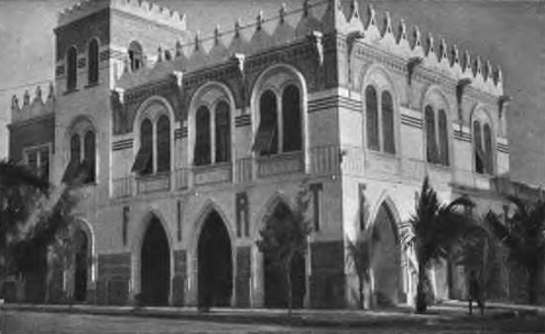 Old Postcard of Italian Somalia, dated 1940, showing the Fiat Building on the main avenue of Mogadiscio. The postcard was taken from my grandfather album. I have done the digital photo of the postcard, cut it and added data with my software.